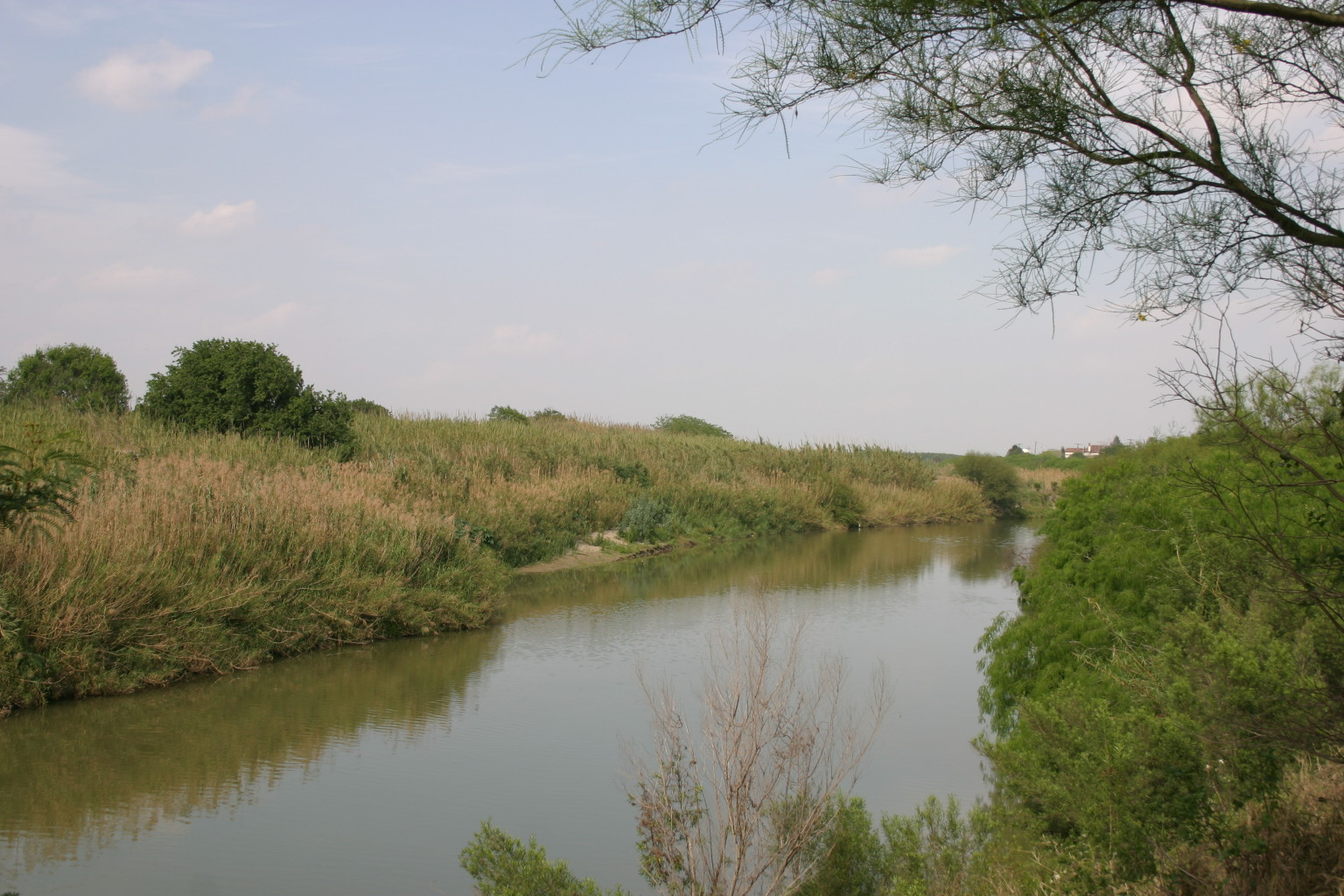 The Rio Grande river as seen from Matamoros, Tamaulipas. Texas is visible in background.